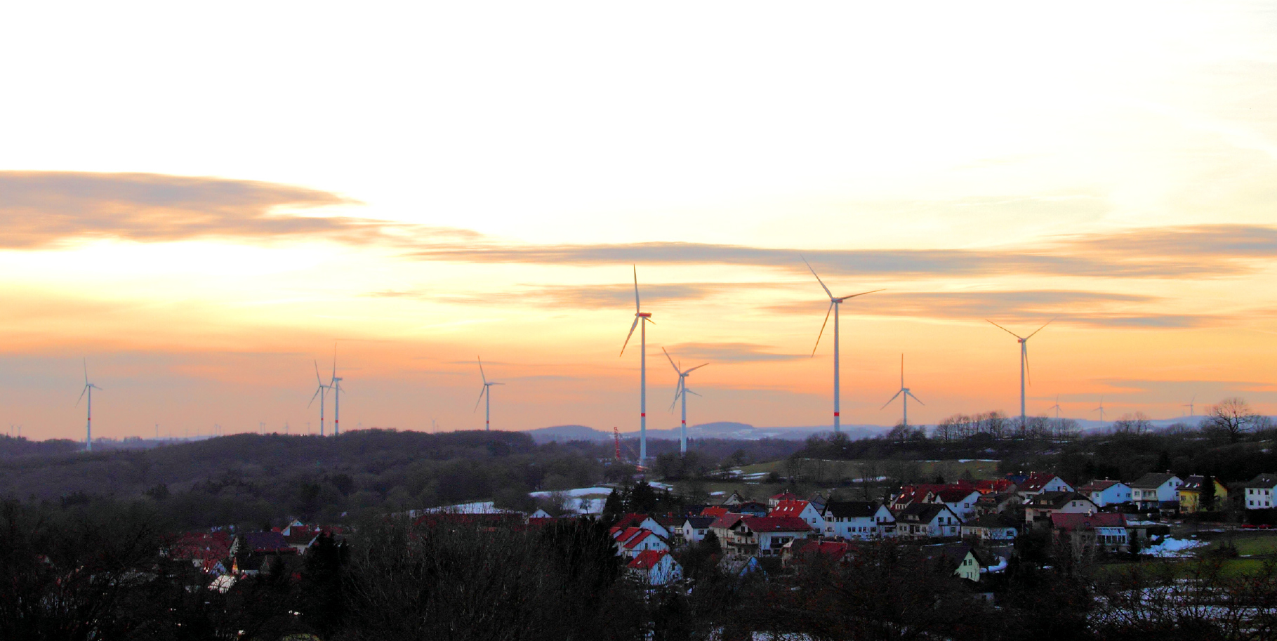 Village of Hutten (Main-Kinzig-Kreis), Germany